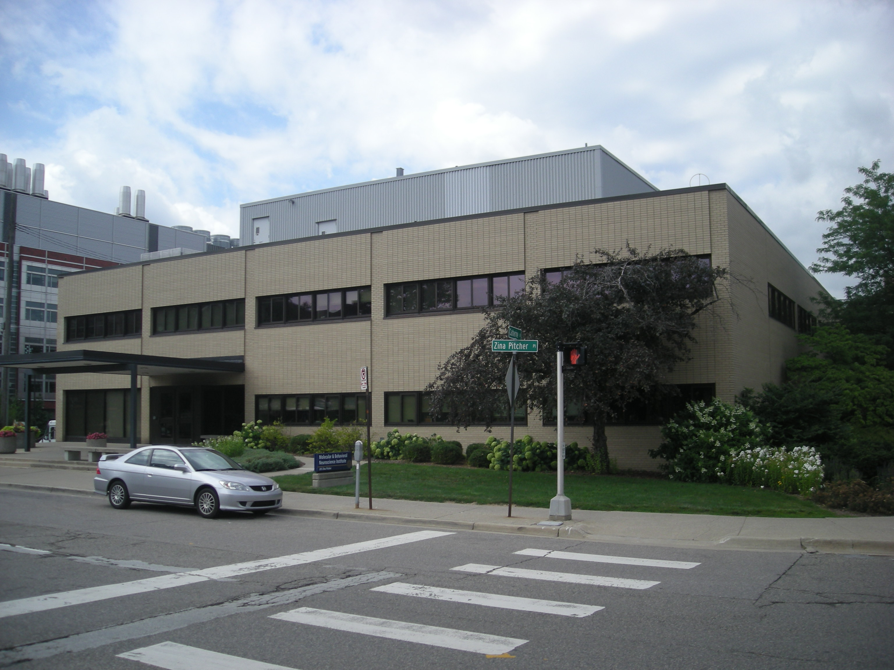 The Molecular & Behavioral Neuroscience Institute on the medical campus of the University of Michigan in Ann Arbor, Michigan (United States).